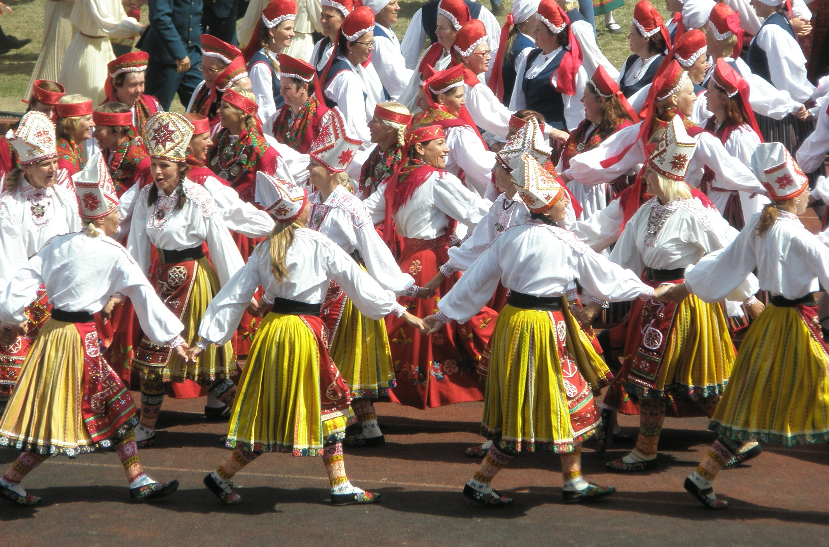 18th Estonian Dance Celebration in Tallinn, Estonia